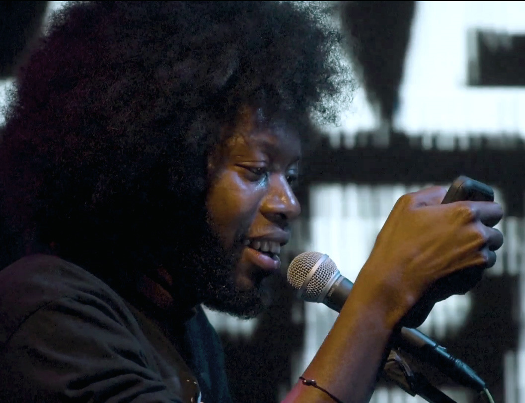 American dramatist Jeremy O. Harris during the Read To Me poetry reading at CultureHub, New York City